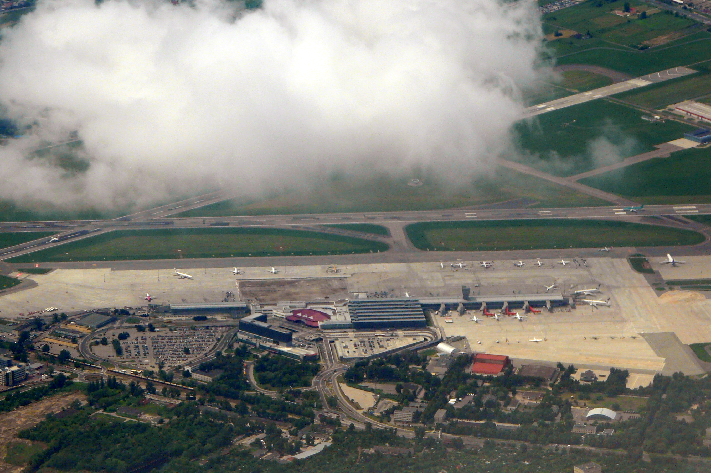 Warsaw, Frederic Chopin Airport